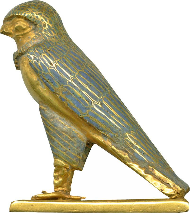 This masterpiece represents a solar god in falcon form.